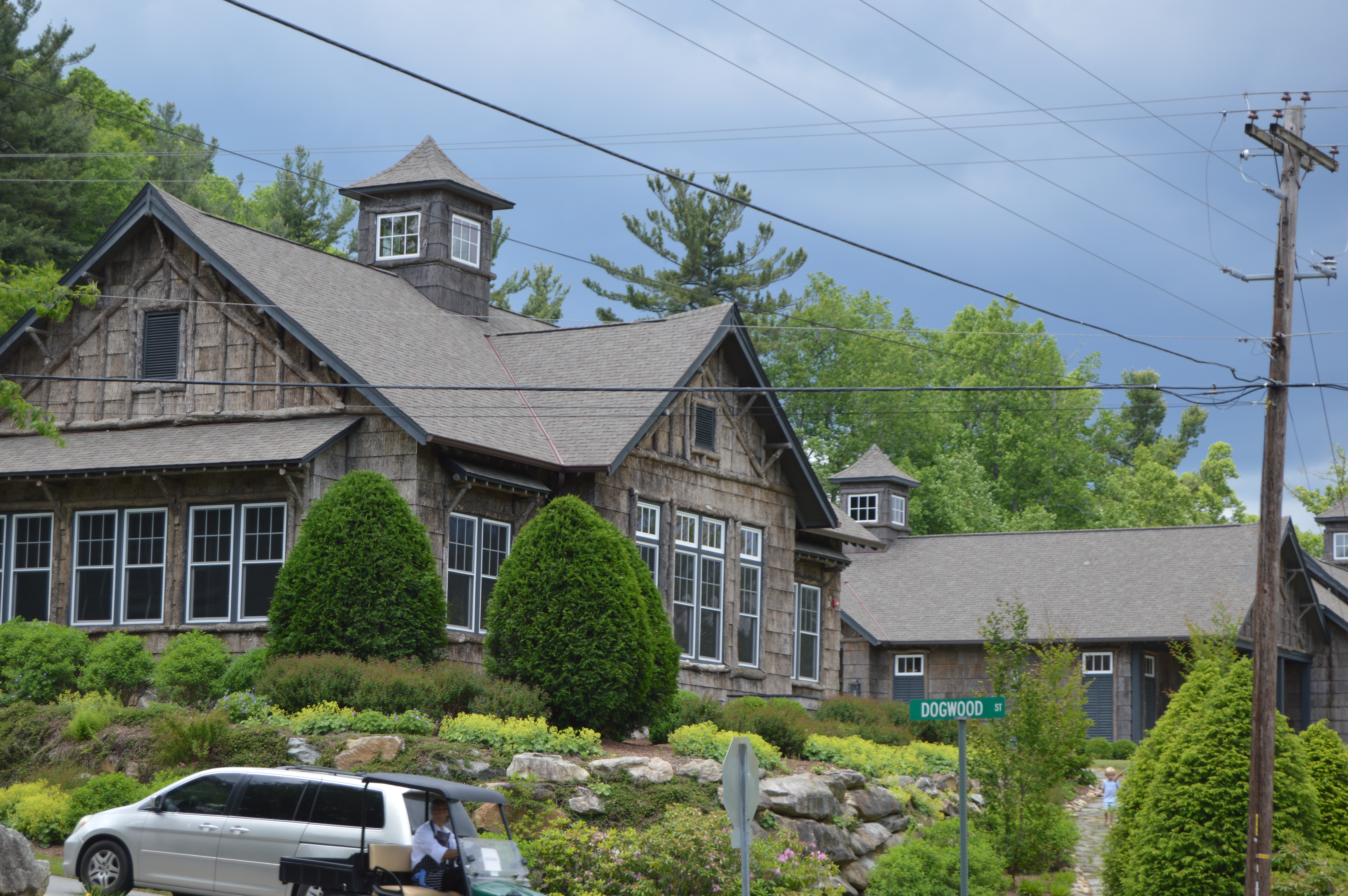 Buildings on Linville Avenue at Dogwood Street in Linville, North Carolina, United States. They are part of the Linville Historic District, a historic district that is listed on the National Register of Historic Places.